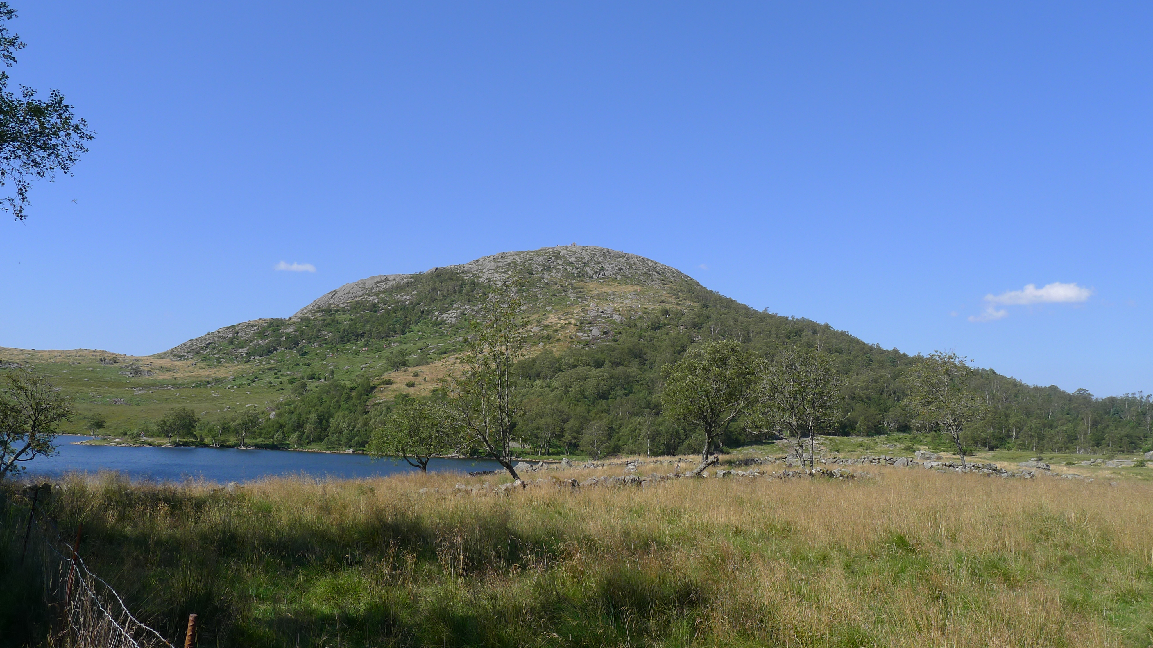 View of Dalsnuten on a sunny day with many visitors.